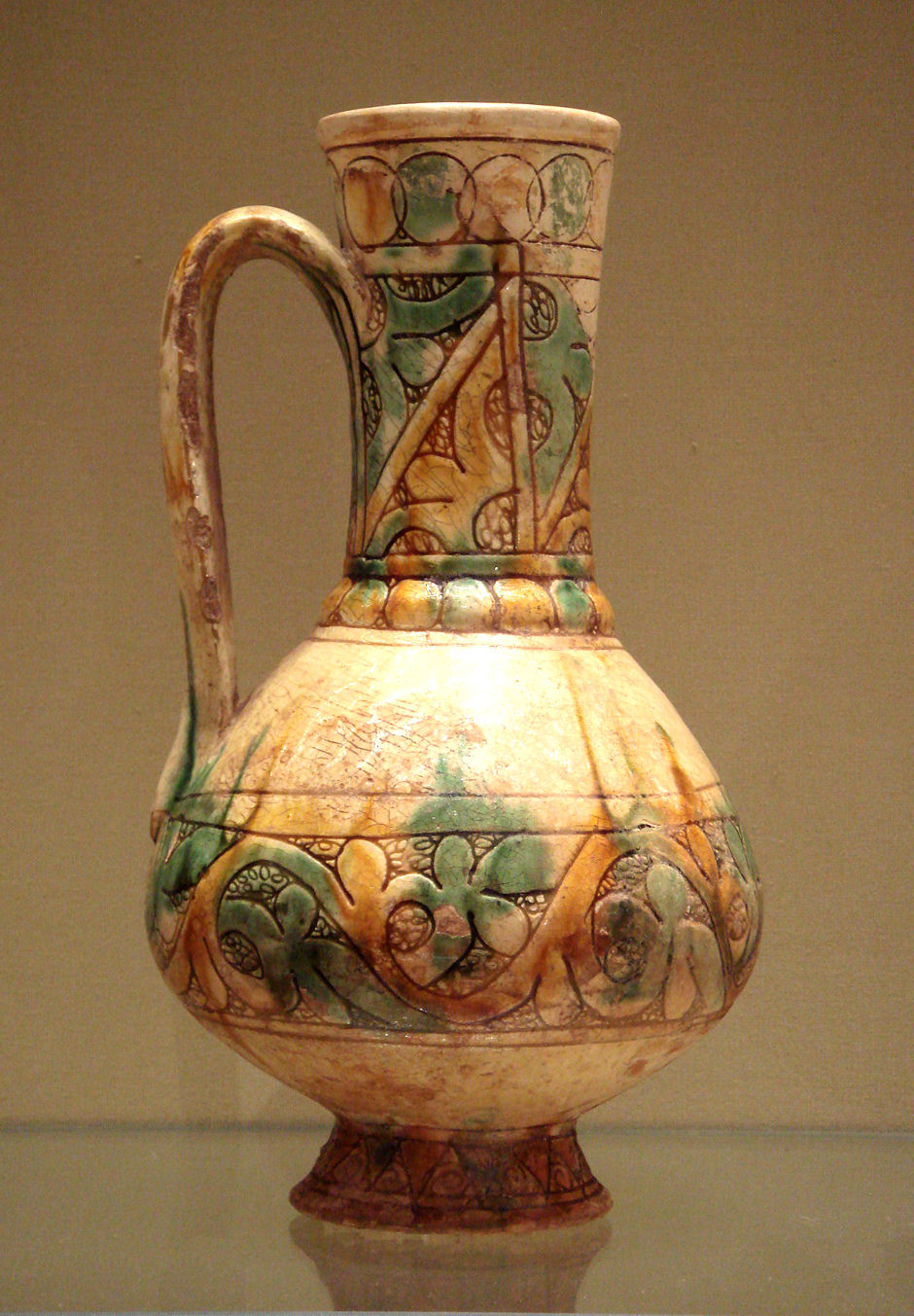 Jug. Slipped earthenware with painted and engraved decoration under transparent glaze, 14th century. From Cyprus.